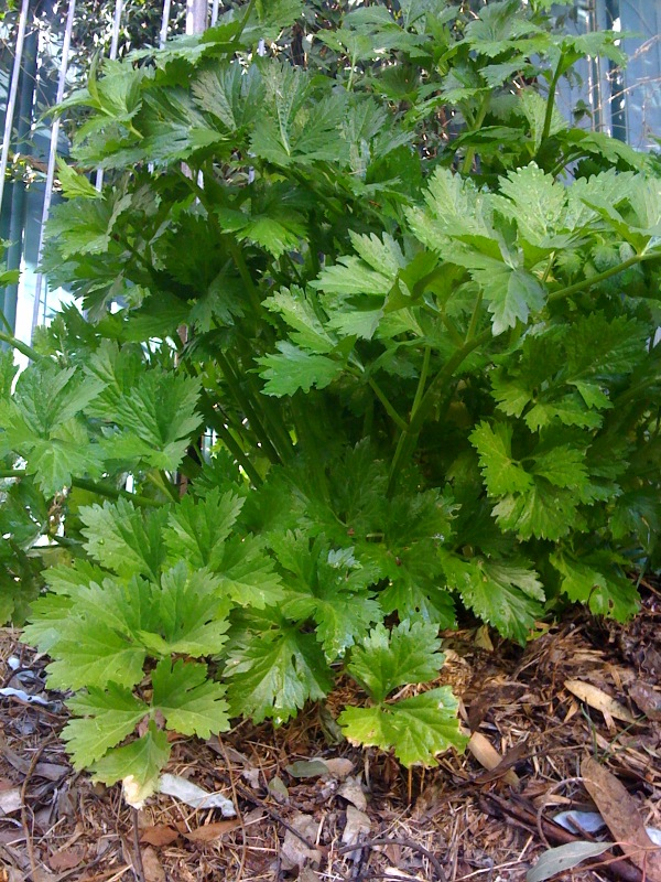 How much roughage can a man eat?